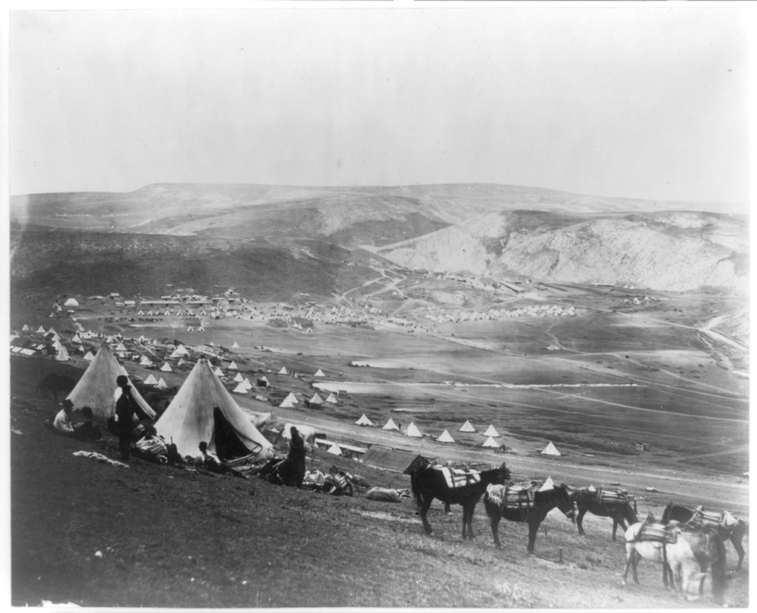 TITLE: Cavalry camp near Balaklava CALL NUMBER: PH - Fenton (R.), no. 4x (A size) [P&P] Restricted access: Materials extremely fragile; Served by appointment only. REPRODUCTION NUMBER: LC-USZC4-9117 (color film copy transparency) LC-USZ62-34127 (b&w film copy neg.) No known restrictions on publication. SUMMARY: Military encampment showing conical tents, people, and horses, with mountains in the background. MEDIUM: 1 photographic print : salted paper ; 28 x 34 cm. CREATED/PUBLISHED: [1855] CREATOR: Fenton, Roger, 1819-1869, photographer. NOTES: Title transcribed from verso. Alternate title from: Gernsheim, Roger Fenton, photographer of the Crimean War: His photographs and his letters from the Crimea, with an essay on his life and work. Purchase; Frances M. Fenton; 1944. Forms part of: Roger Fenton Crimean War photograph collection. Roger Fenton, photographer of the Crimean War: His photographs and his letters from the Crimea, with an essay on his life and work / Helmut and Alison Gernsheim. London : Secker & Warburg, 1954, no. 46. SUBJECTS: Great Britain. Army. Royal Horse Artillery--Facilities--1850-1860. Crimean War, 1853-1856--Military facilities--British. Military camps--British--Ukraine--Balaklava--1850-1860. Military life--British--Ukraine--Balaklava--1850-1860. FORMAT: Salted paper prints 1850-1860. OTHER TITLE: Encampment of Horse Artillery PART OF: Fenton, Roger, 1819-1869. Roger Fenton Crimean War photograph collection REPOSITORY: Library of Congress Prints and Photographs Division Washington, D.C. 20540 USA DIGITAL ID: (color film copy transparency) cph 3g09117 (b&w film copy neg.) cph 3a34625 CARD #: 2001696366